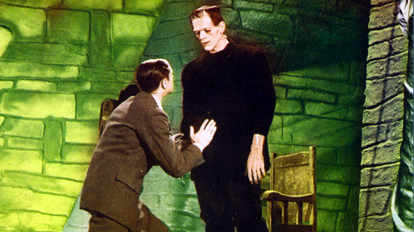 Cropped and edited lobby card for Frankenstein, featuring Colin Clive and Boris Karloff. Image is assumed to be in the public domain as no copyright is in evidence.